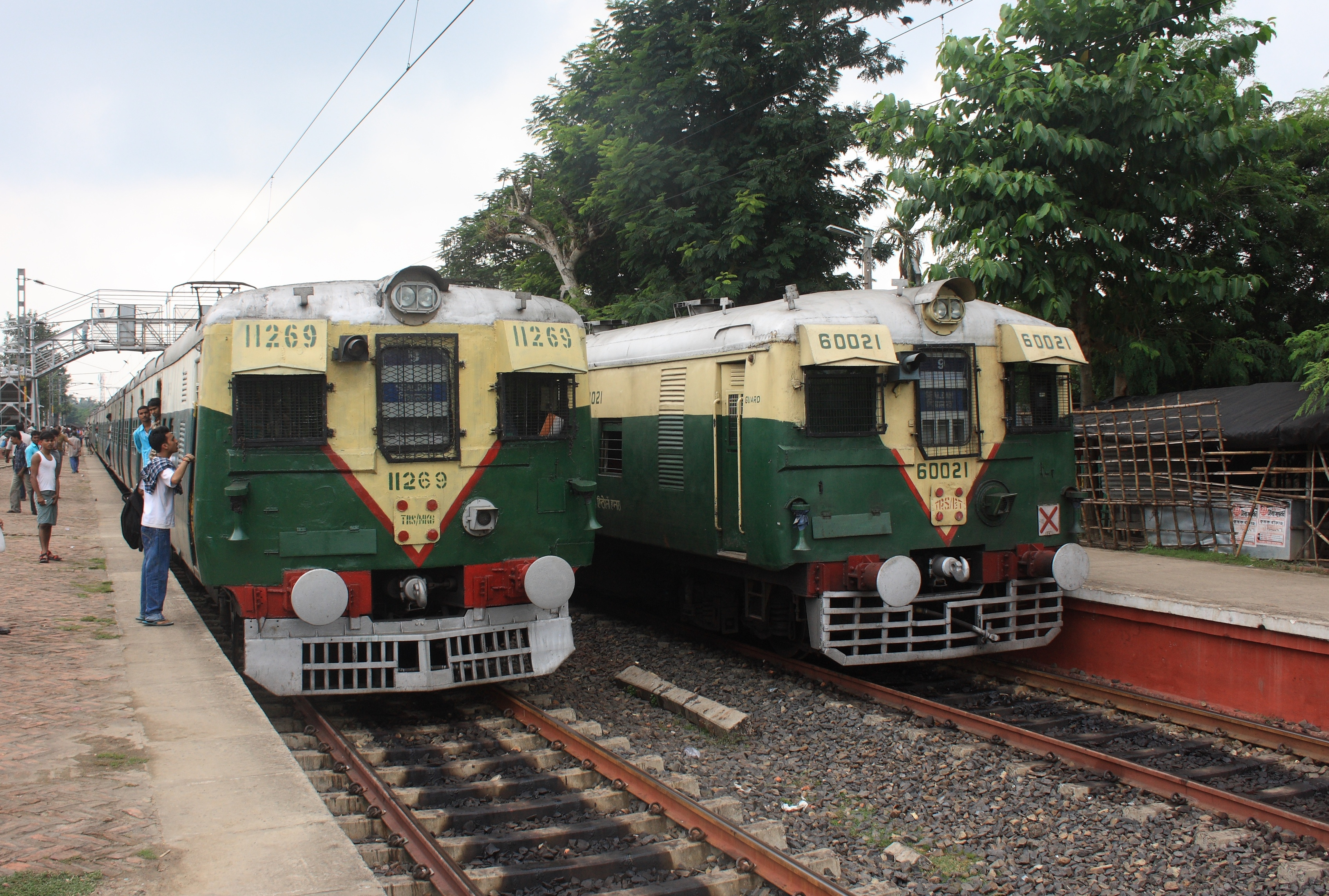 A Kolkata local train at Hasanabad station (end of the line) ready to go via Barasat Junction to Sealdah.